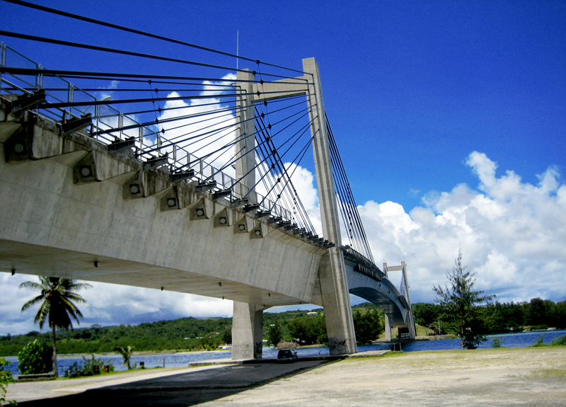 Japan Palau Friendship Bridge (Photo-2007) Category:Palau